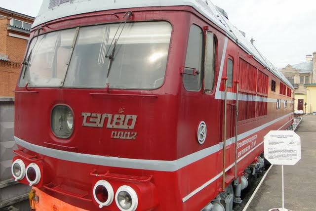 Russian Diesel Locomotive TEP80